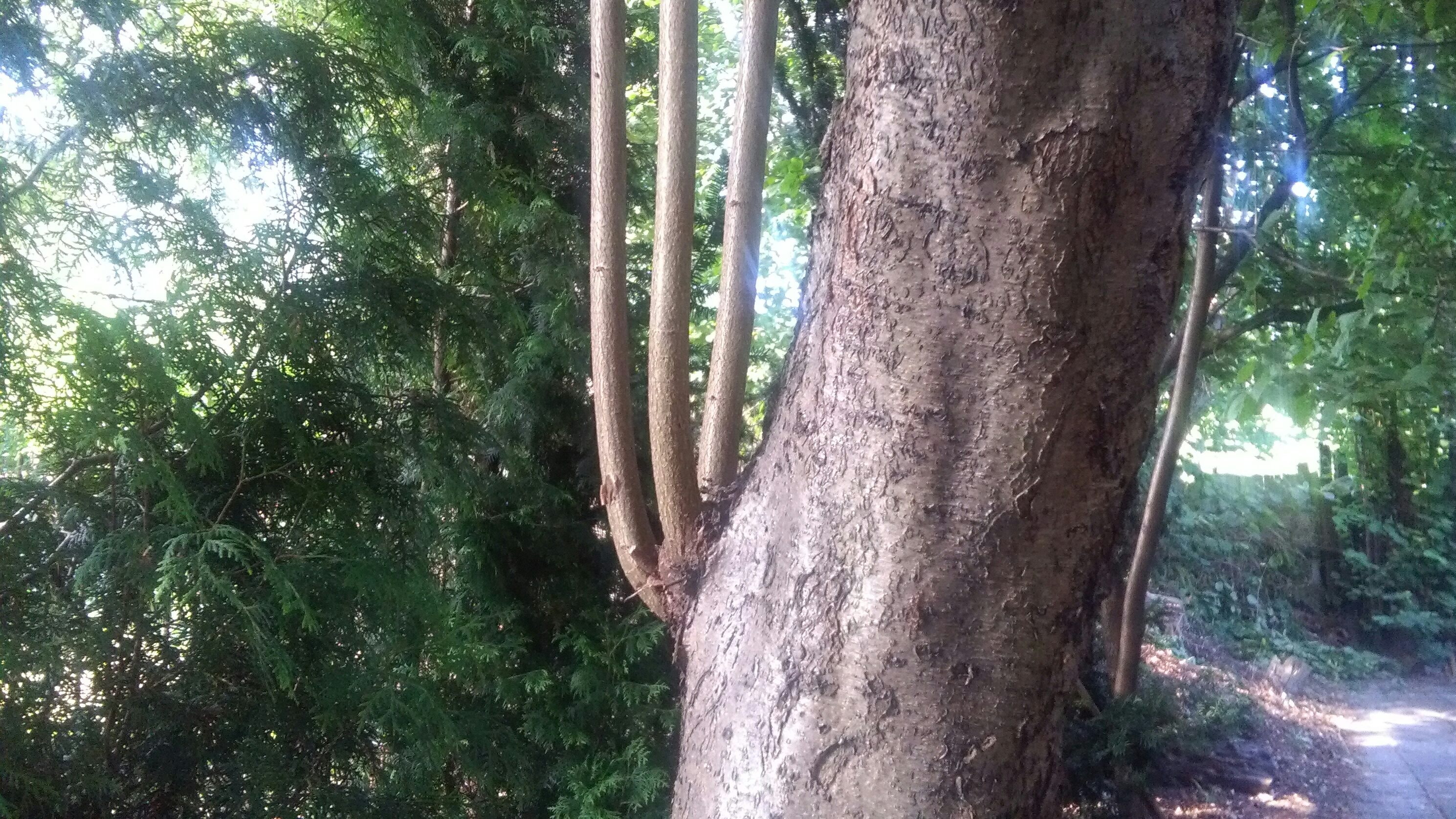 Corylus avellana water sprouts